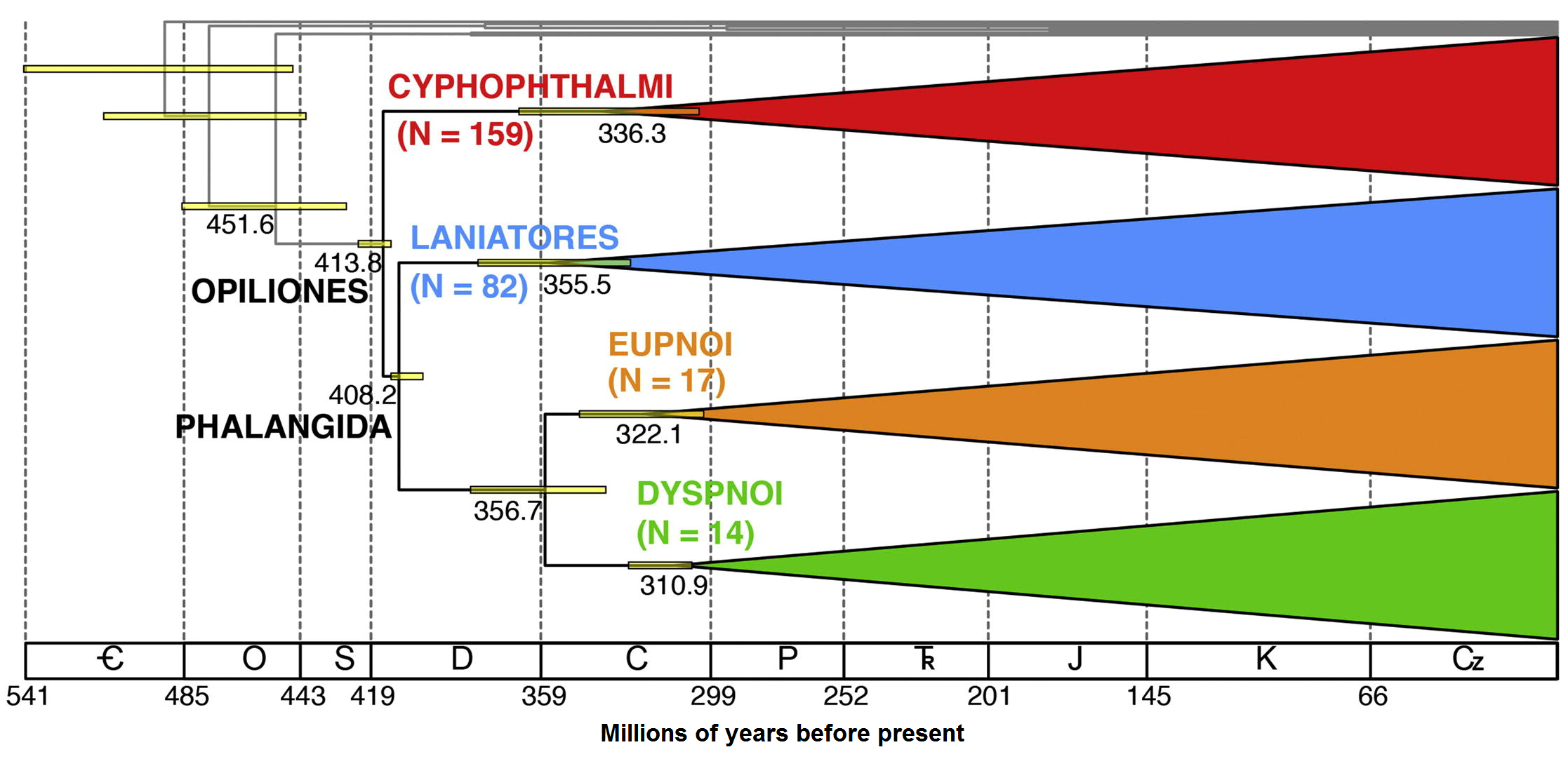 Molecular divergence time estimates treating Tetraophthalmi as stem-Cyphophthalmi. Ingroup clade sizes are not to scale. Numbers on nodes are in Ma.